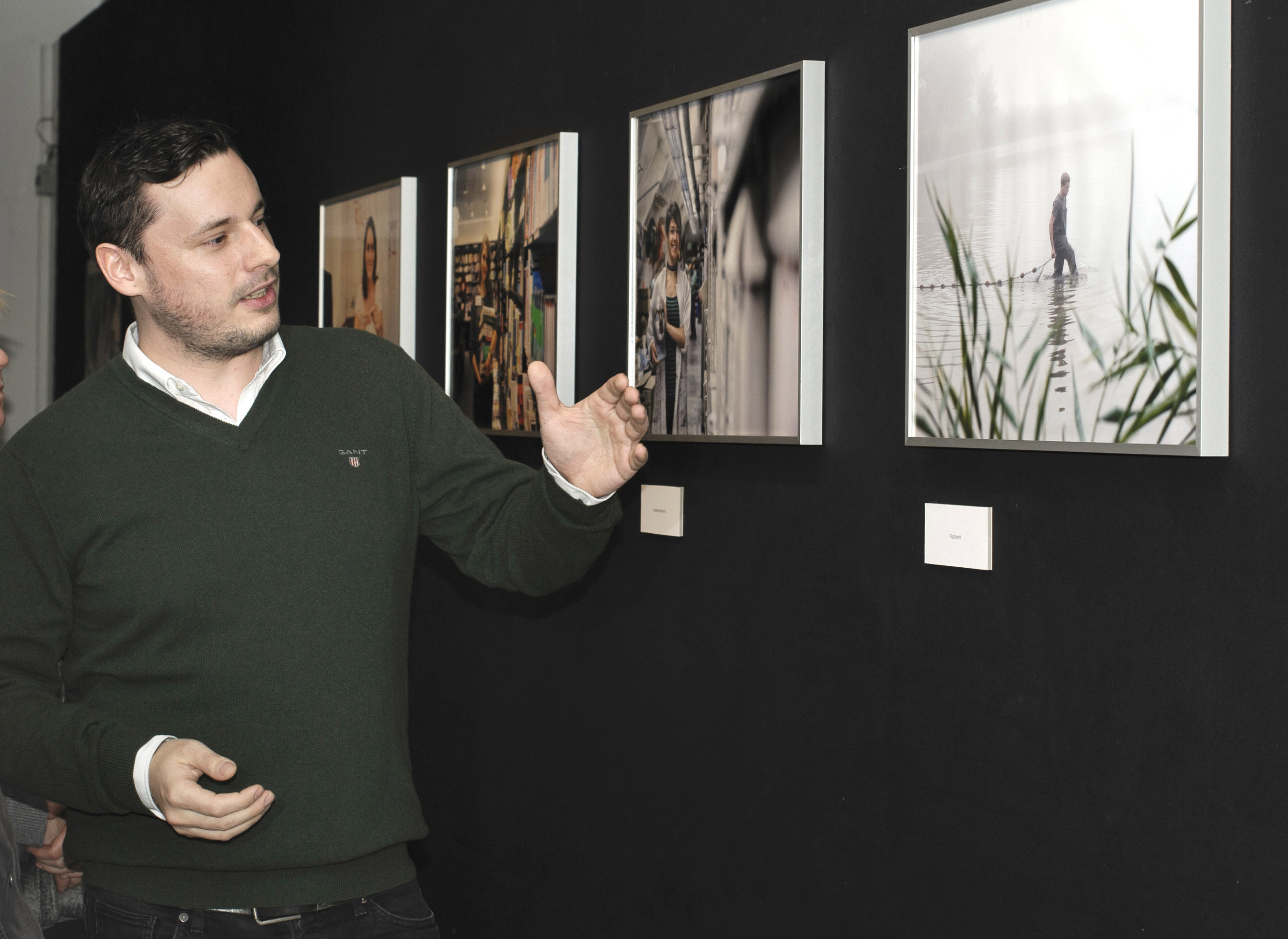 Portrait Martin Rehm, Exhibition in Nuremberg, Germany, 2015